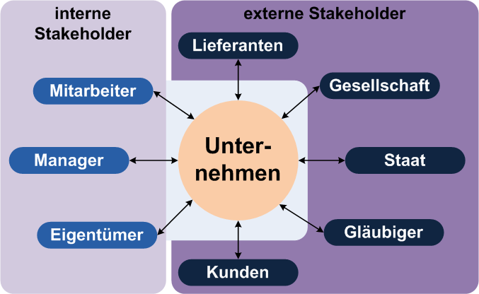 The picture shows the typical stakeholders of a company. The stakeholders are divided in internal and external stakeholders.